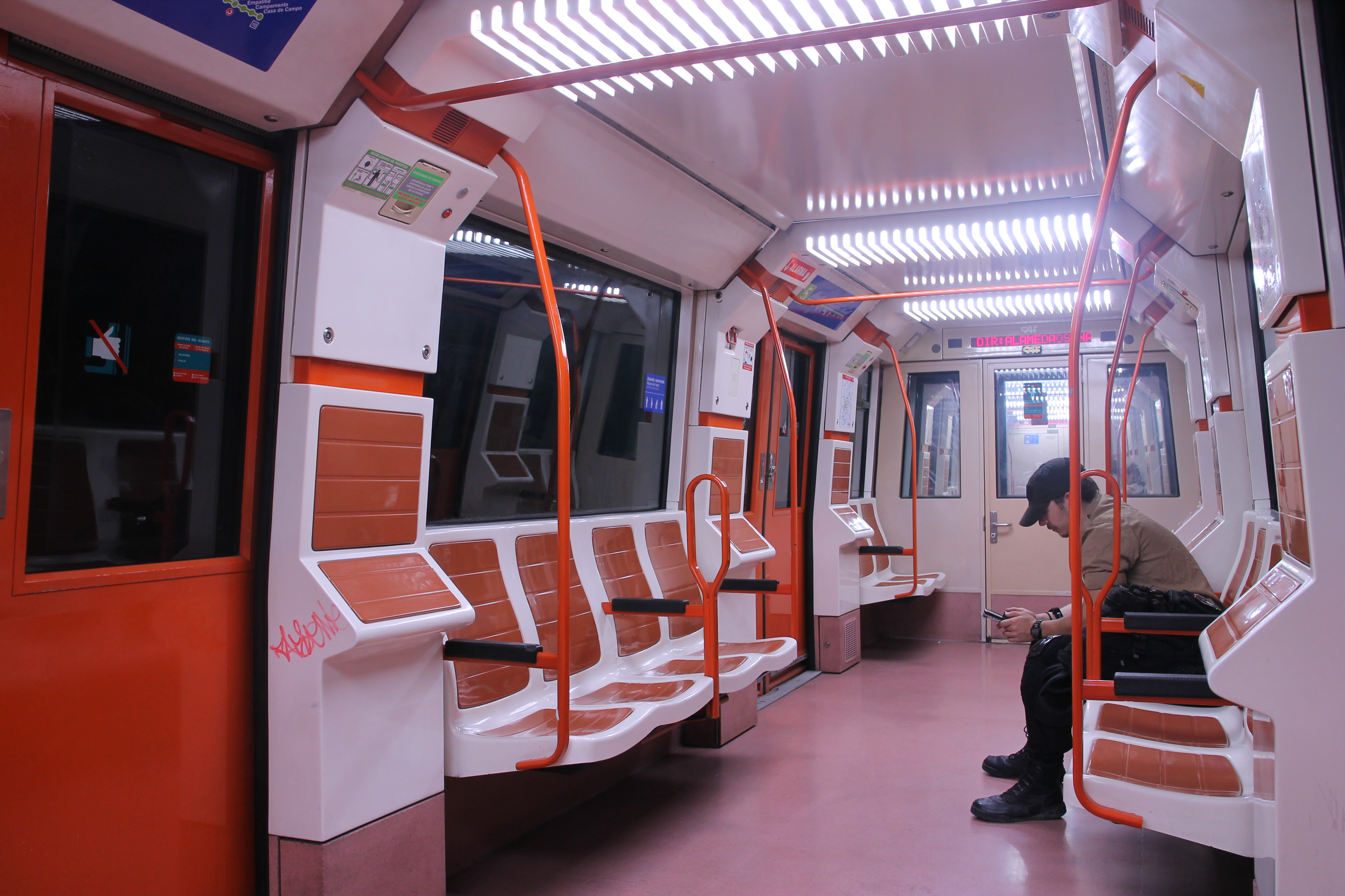 Series 2000A of Metro Madrid